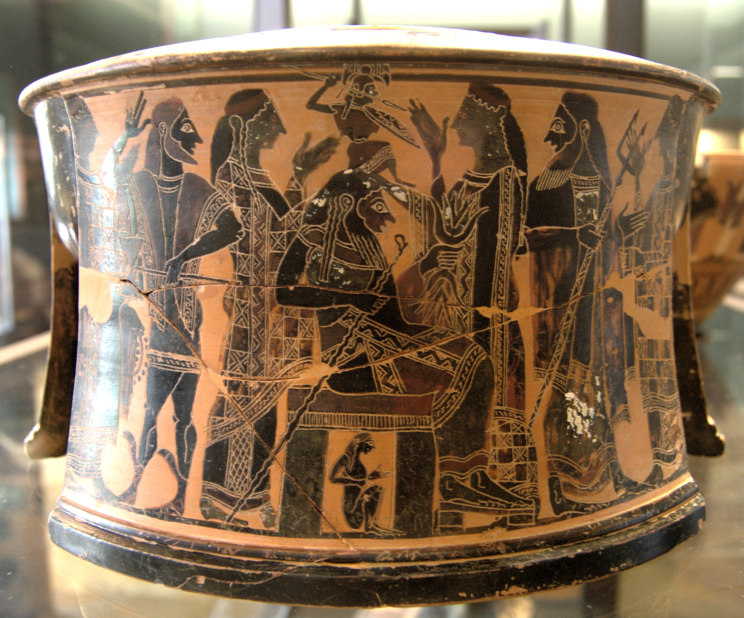 Birth of Athena. Attic exaleiptron (black-figured tripod), ca. 570–560 BC. Found in Thebes